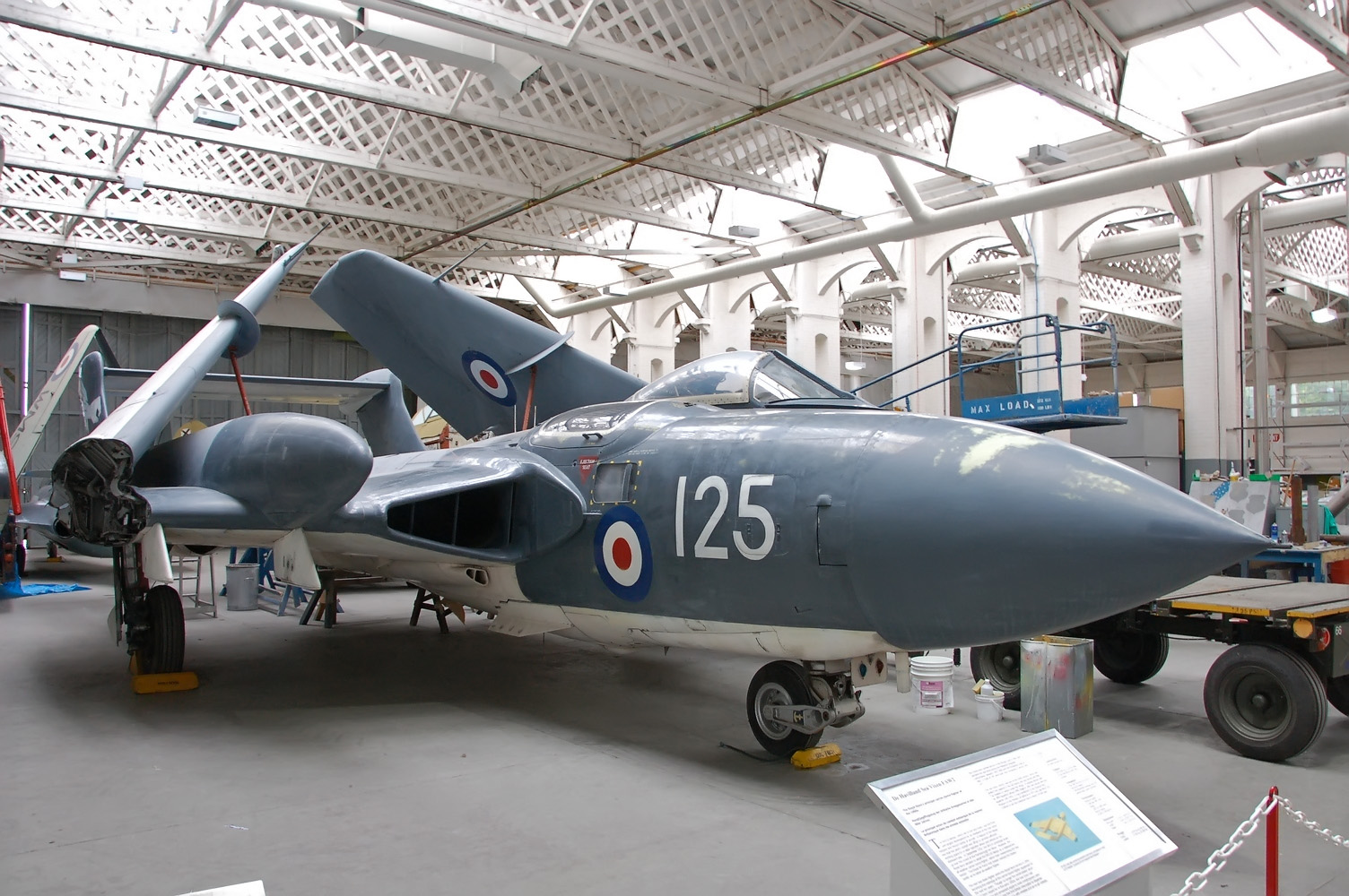 A de Havilland Sea Vixen FAW.2 with wings folded, at the Imperial War Museum, Duxford, photographed by Robin Stevens on 26 May 2007.